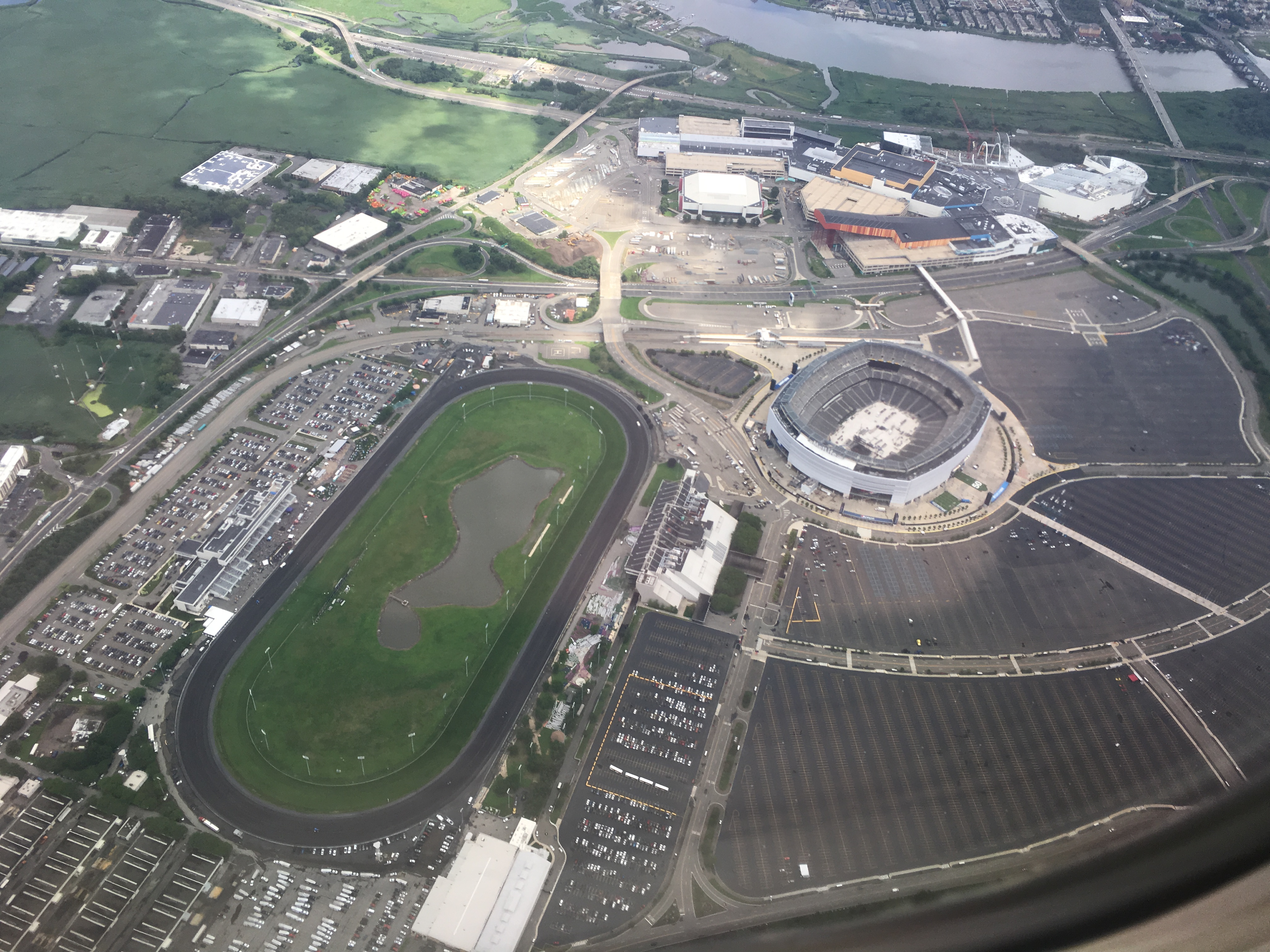 Aerial photo of the Meadowlands Sports Complex from a plane in August 2018.